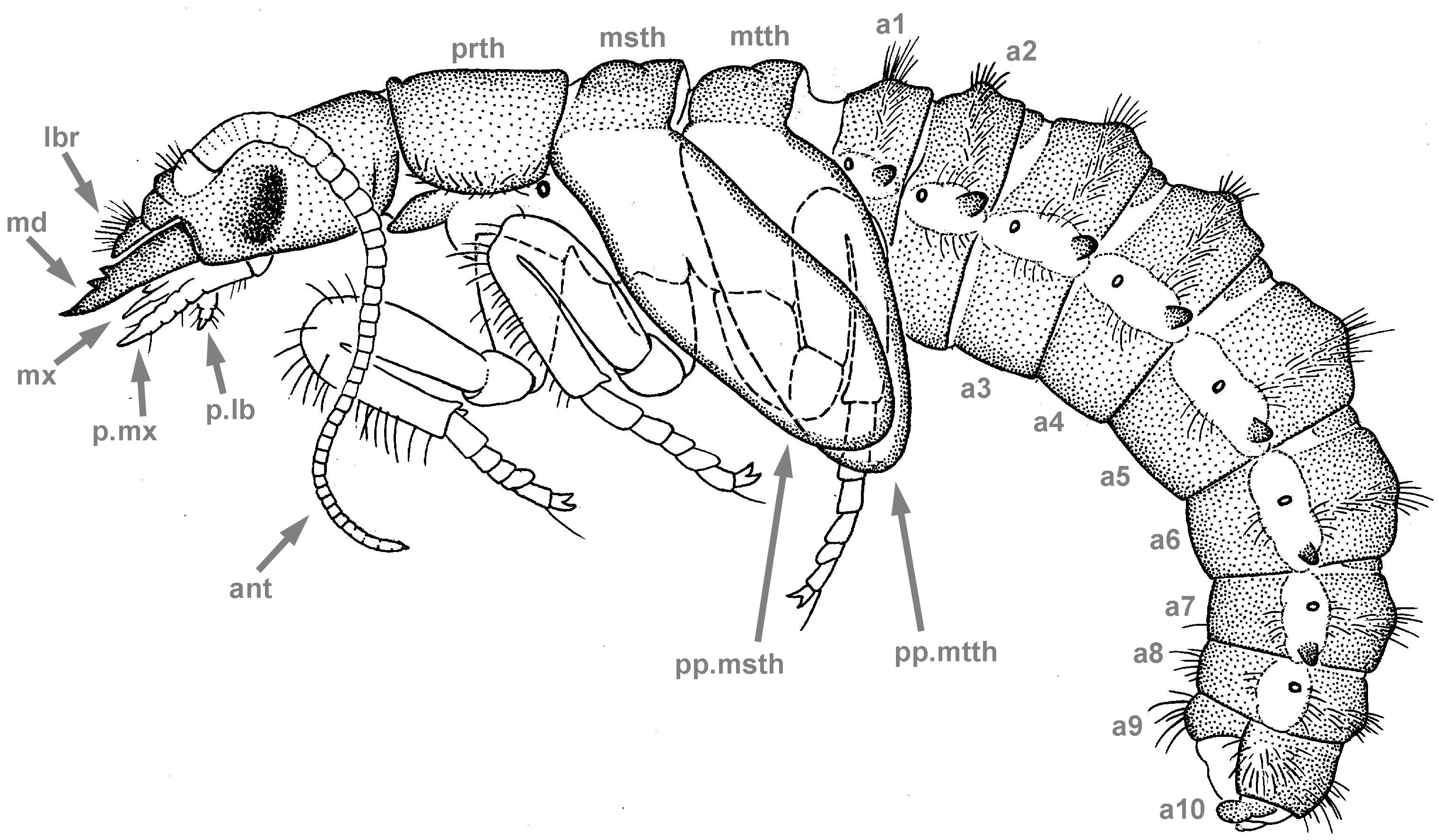 Pupa of Sialis sordida